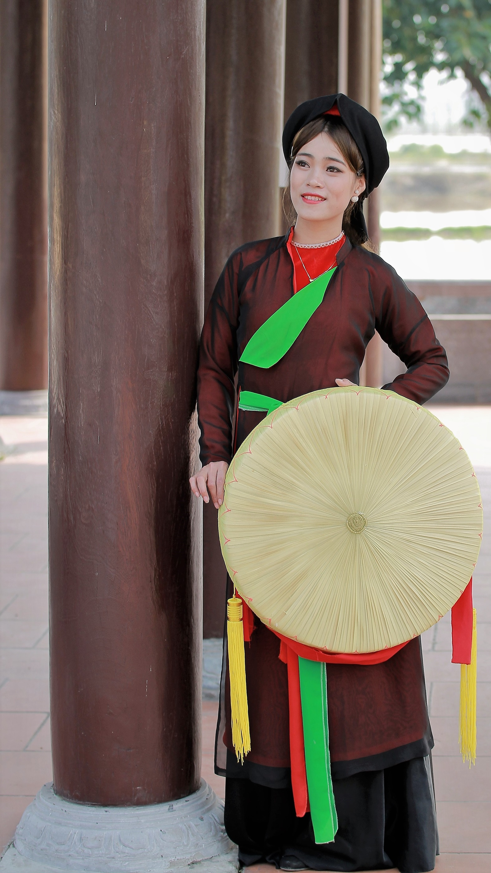 The áo tứ thân